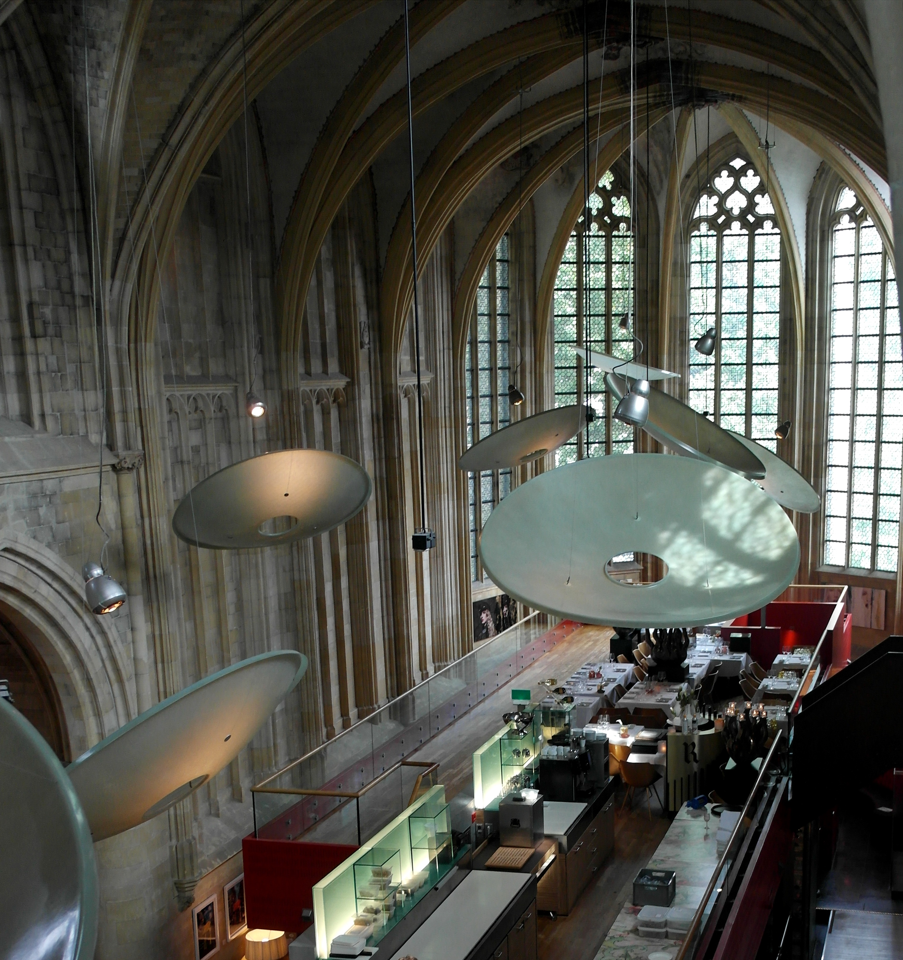 View of the modern mezzanine inside the nave and choir of Kruisherenkerk in Maastricht, the Netherlands. The Gothic church and monastery of the Croziers (or Crutched Friars) dates from the 15th century and was converted into a luxury hotel (Kruisherenhotel) in 2003-05. Henk Vos designed the hotel interior, including designs from several international designers. The mezzanine is used as a restaurant area with a bar and wine cellar underneath. The light fixtures are by Ingo Maurer.